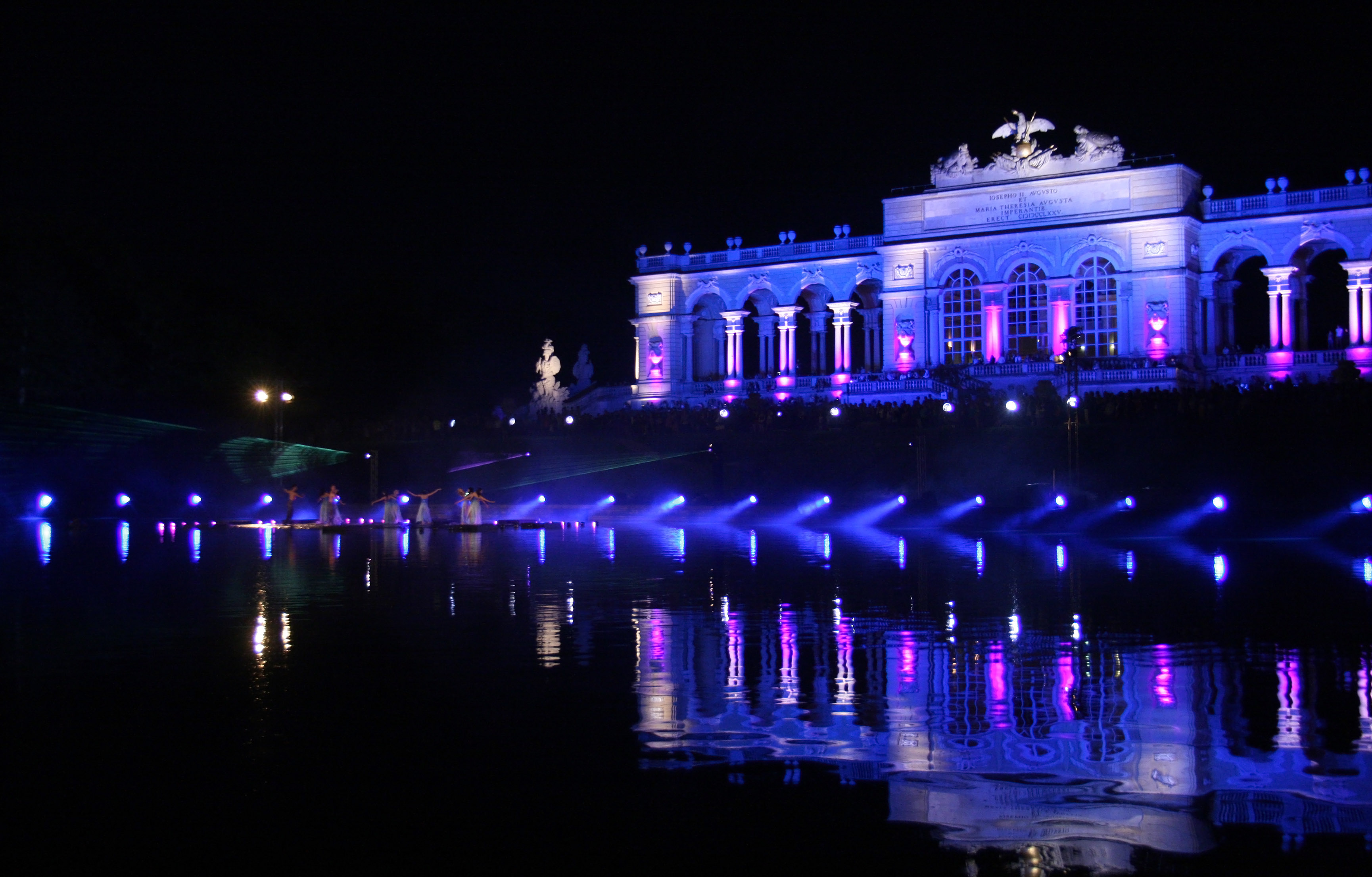 Schönbrunn Palace and Gardens, Vienna, Austria: Summer Night Concert of the Vienna Philharmonic Orchestra.